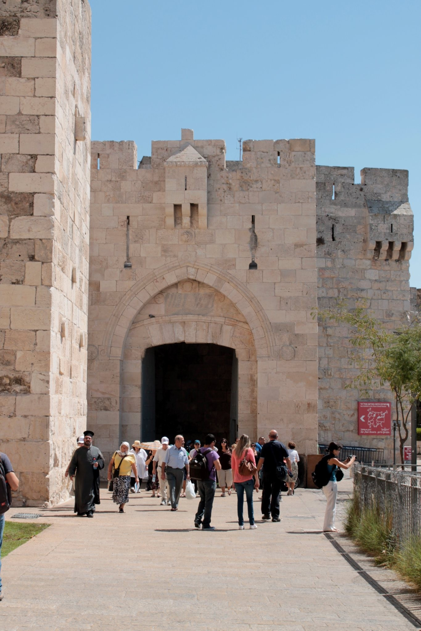 Jaffa Gate